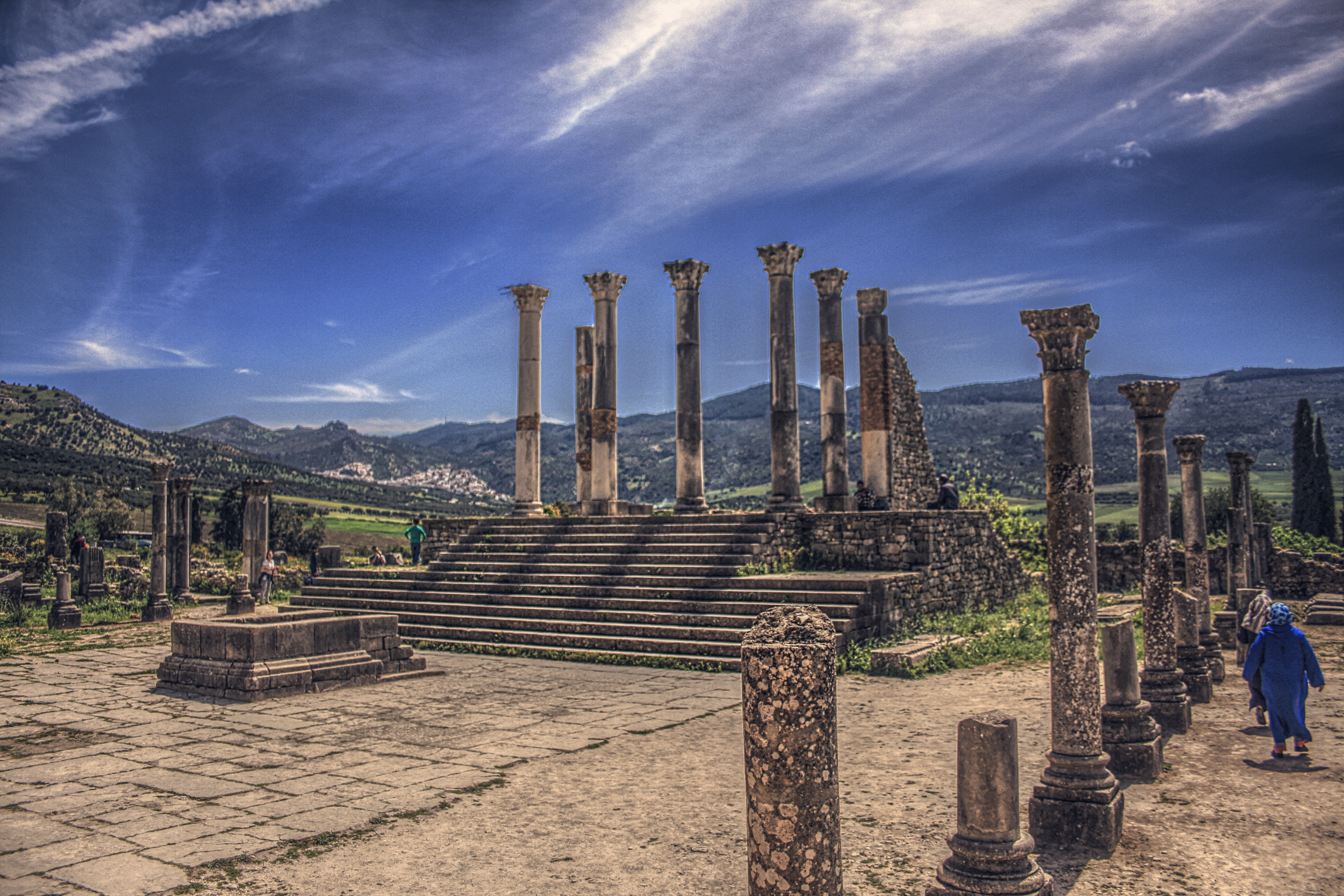 I took this Image while visiting Volubilis, An Amazing site that represents the ruins of roman